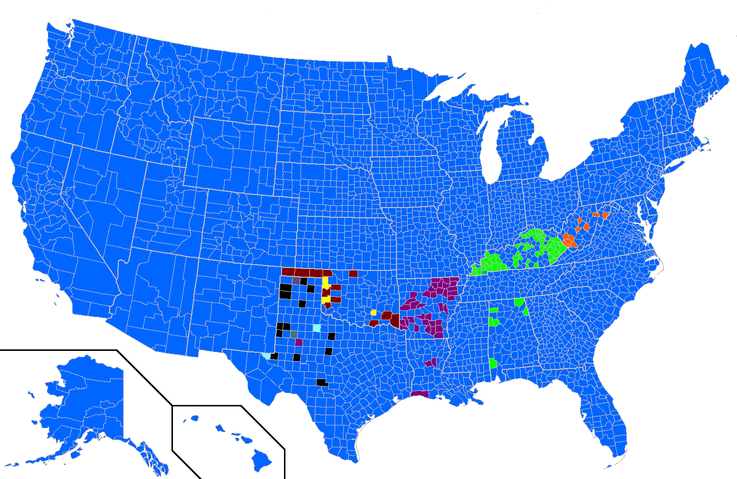 Map of the Democratic Party (United States) presidential primaries, 2012 by county. Counties won by Obama Counties won by Terry Counties won by Wolfe, Jr. Counties won by Rogers Counties won by Judd Counties won by Uncommited